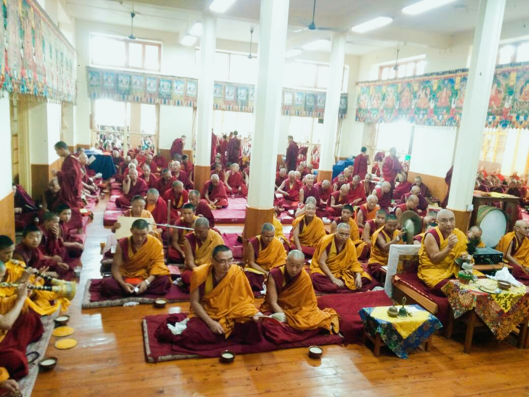 Buddhist monk praying,Dalai lama temple